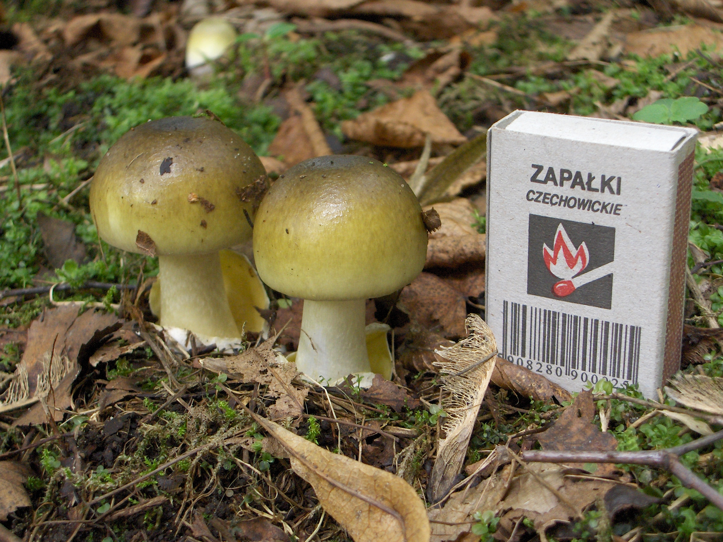 Death cap - two young fungal fruiting bodies. Location: Europe, Poland, Mazovian Voivodship, Podkowa Leśna, broadleaf forest/garden. See also other pictures of the same subject.